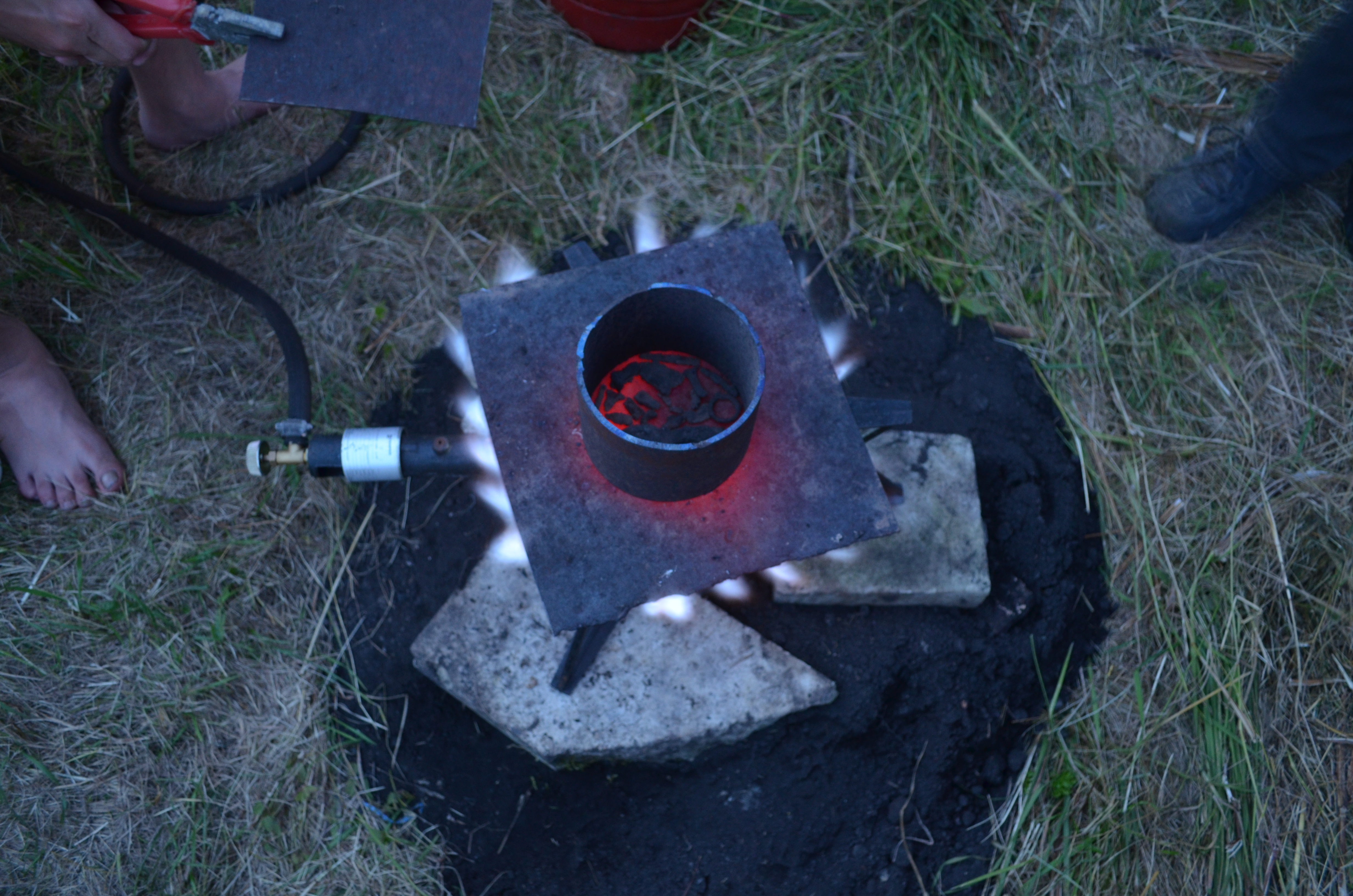 Field conservation experiment at during the excavations at the Käku smithy site.